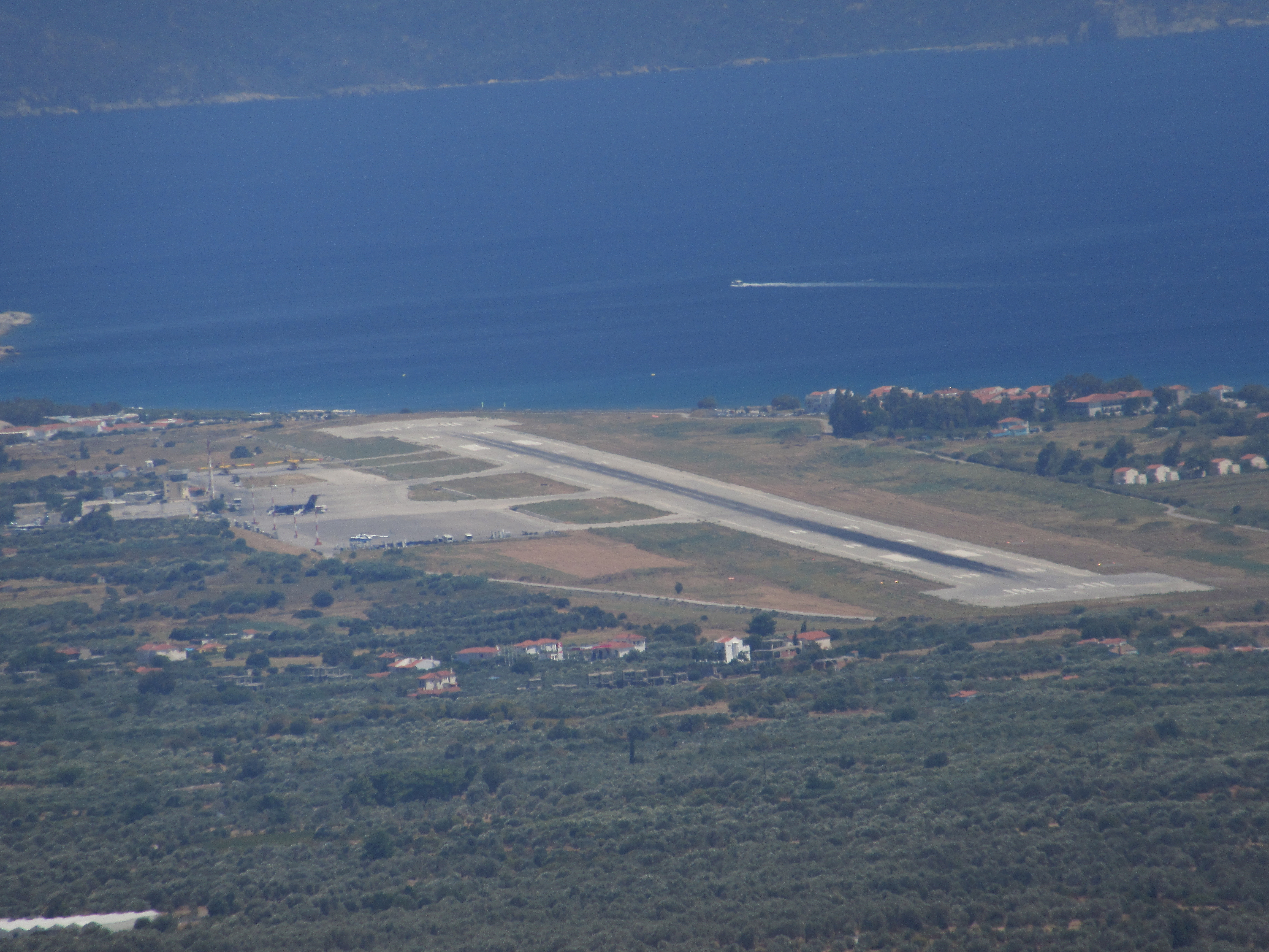 Flughafen Samos-Aristarchos in Bird's Eye View